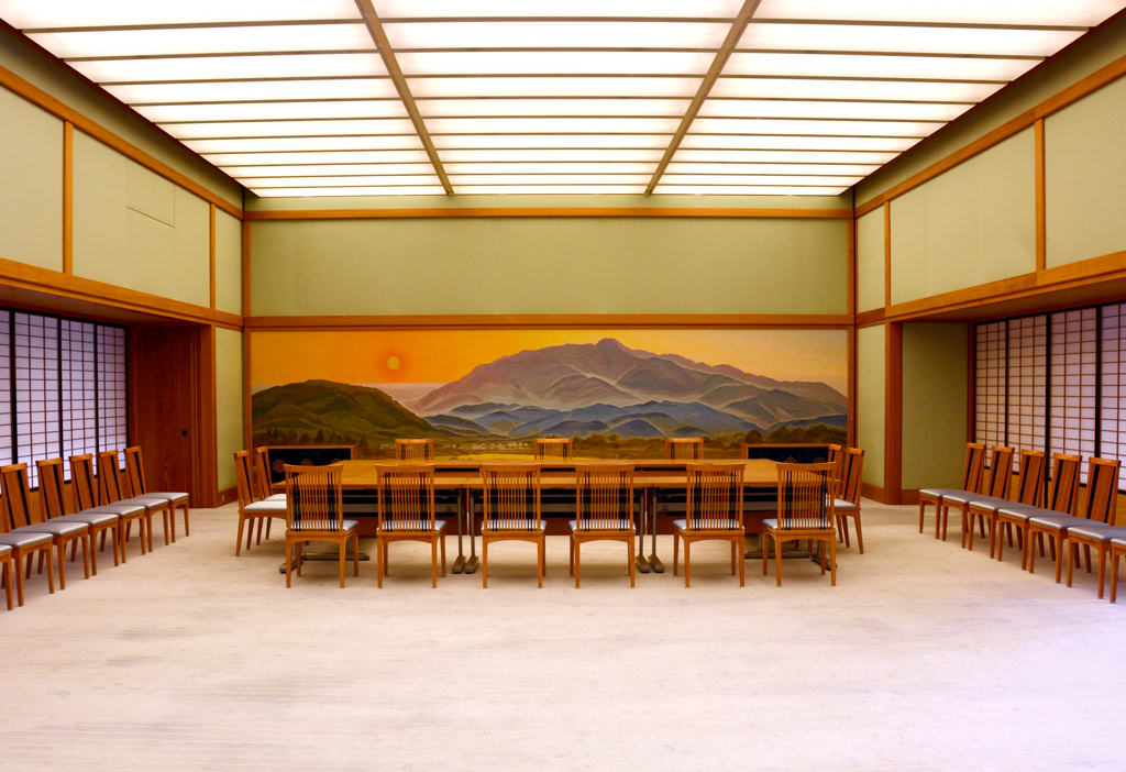 Yubae no Ma in the Kyoto State Guest House